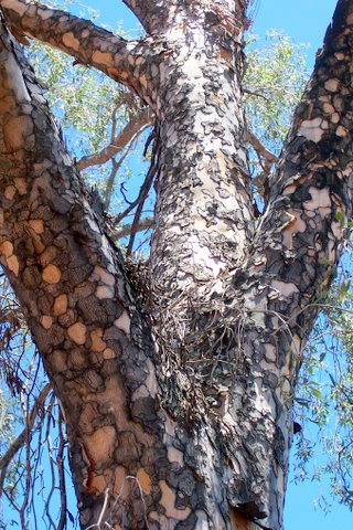 Flindersia maculosa near Mount Oxley, Bourke, NSW